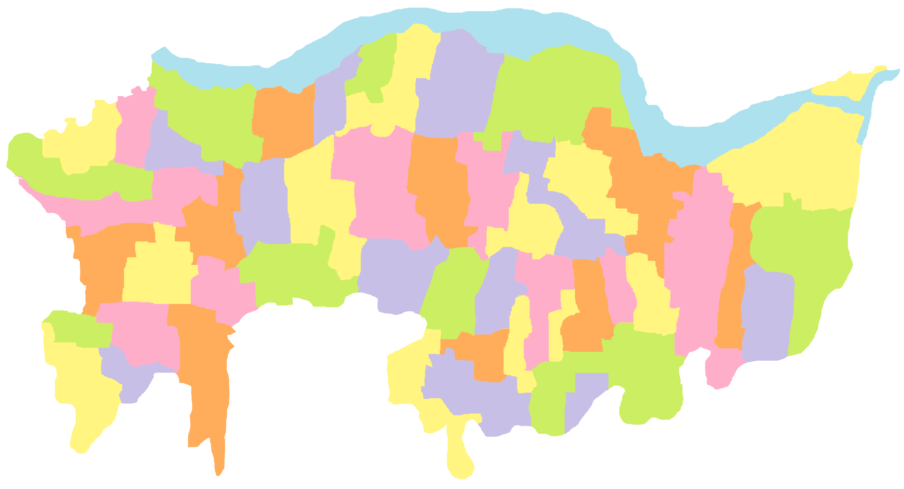 Map of Pengji Subdistrict